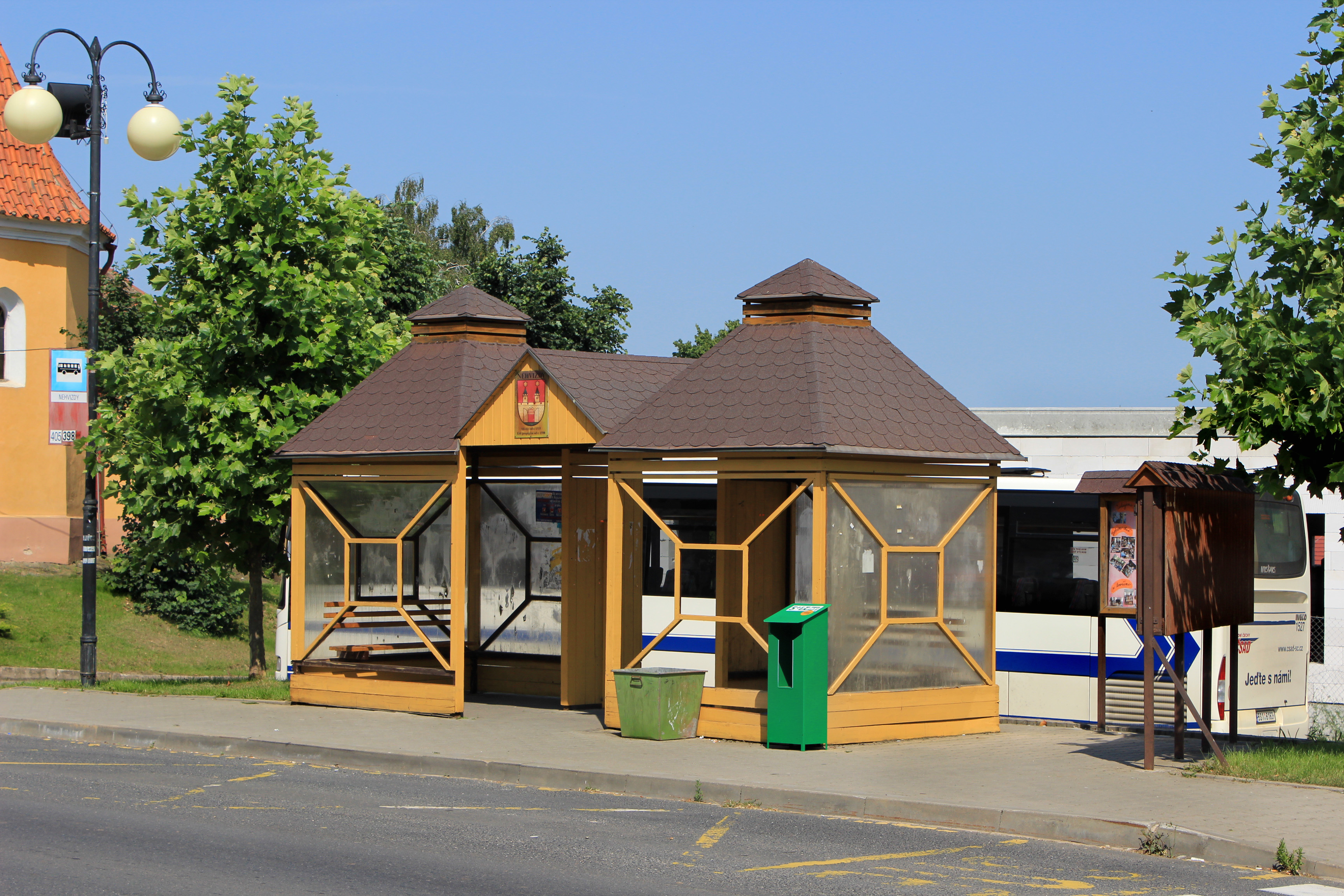 Bus stop in Nehvizdy, Czech Republic